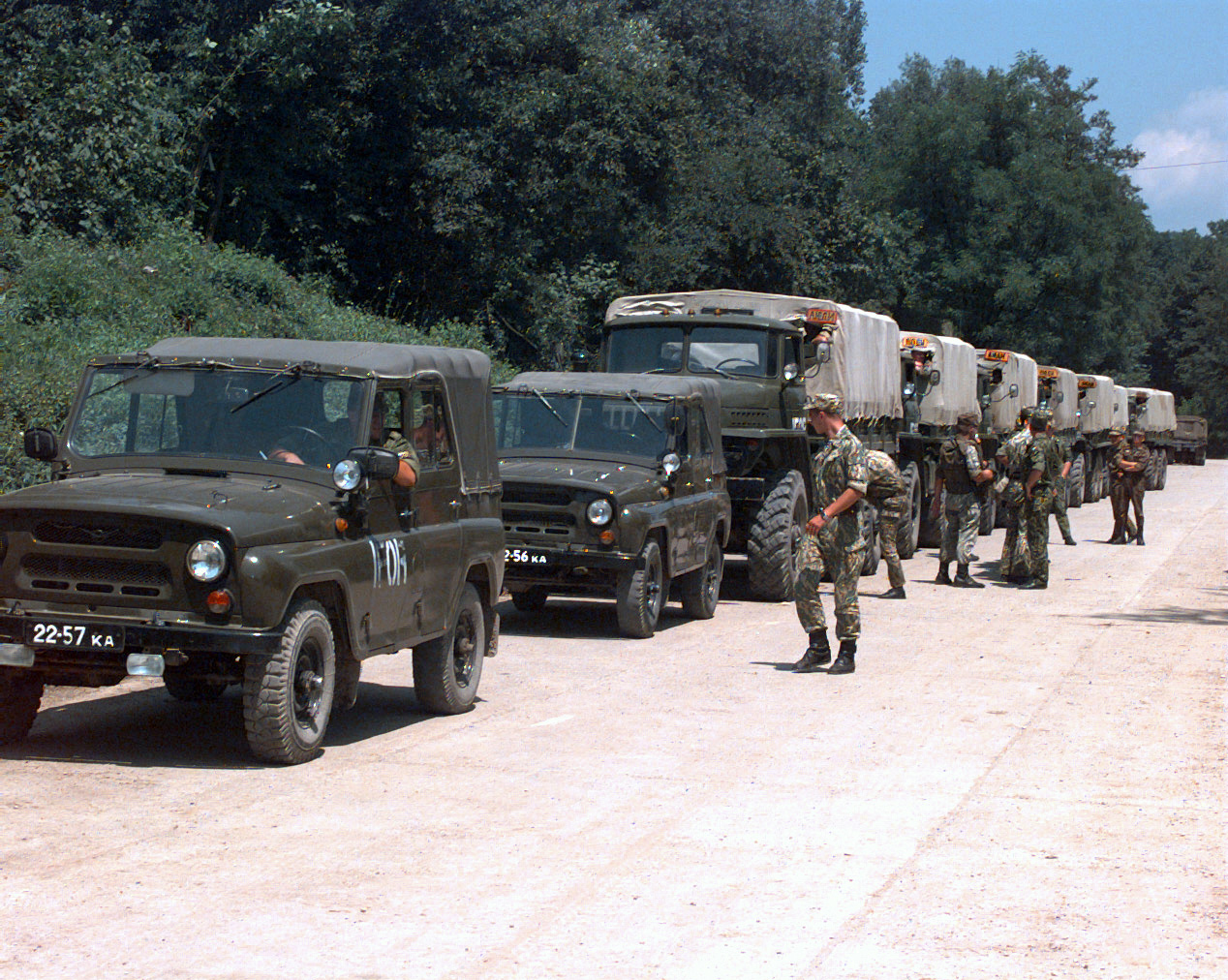 Russian vehicles from the Russian Brigade, located in Uglievick, Bosnia - Herzegovina in Task Force Eagle during Operation JOINT ENDEAVOR (the multi-national peacekeeping mission in Bosnia), line up at Tuzla Air Base to drop off departing Russian Airborne Troops and pick up the incoming Airborne troops.